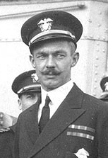 Photograph of Medal of Honor recipient Lieutenant Commander Walter Atlee Edwards, on the foredeck of the USS Bainbridge (DD-246).